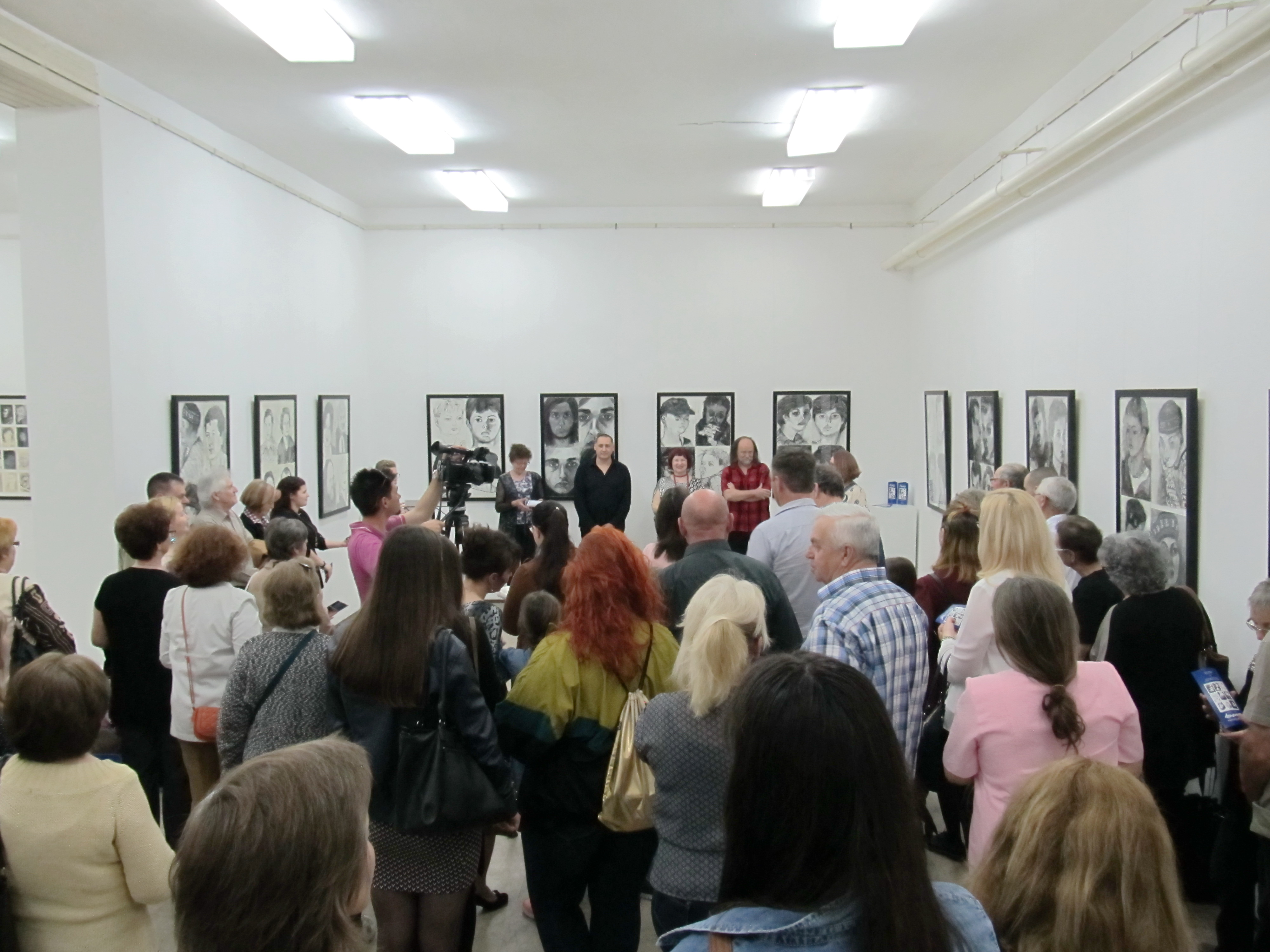 Opening of an exhibition in the Museum of Vojvodinian Slovaks.